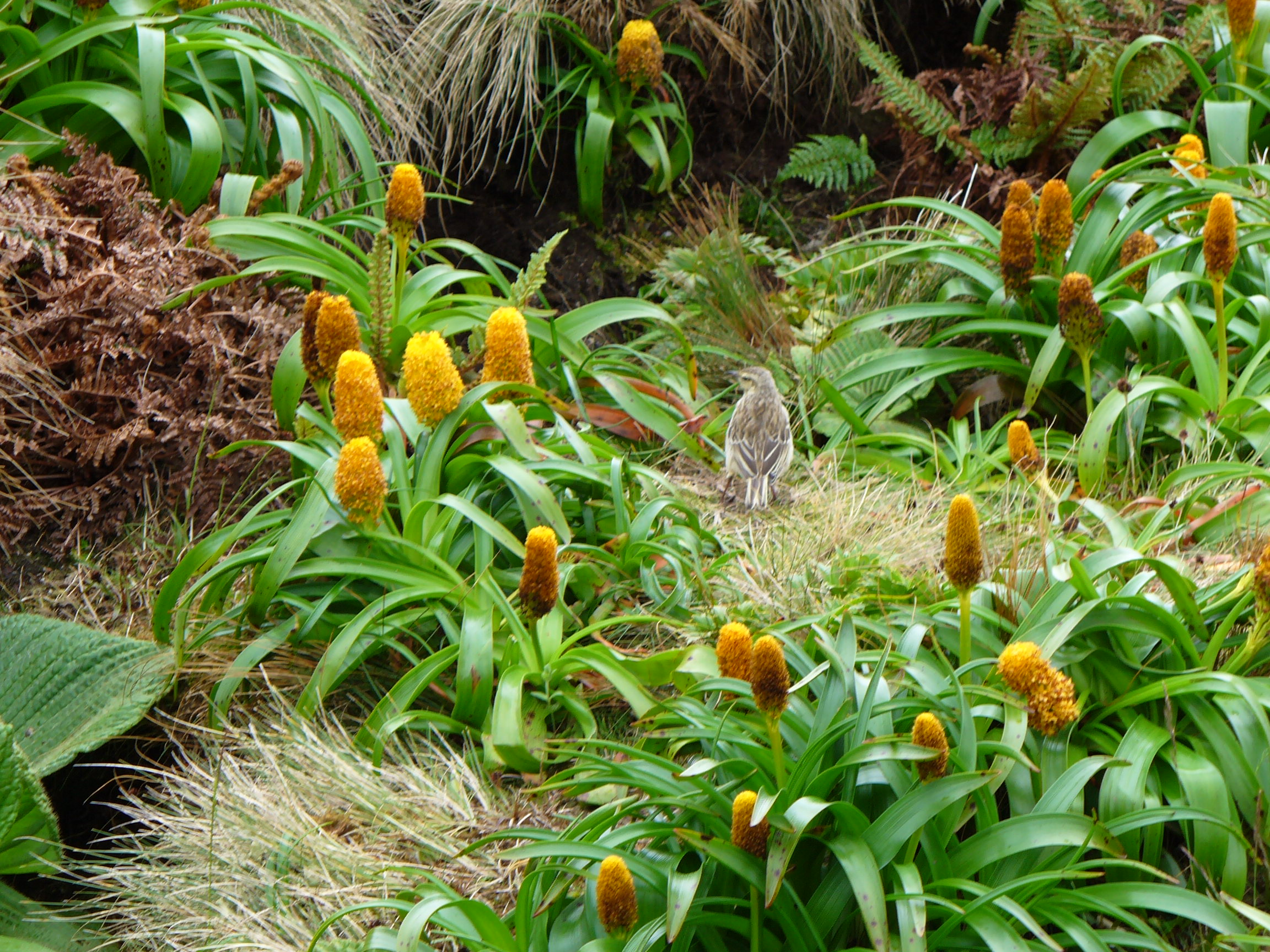 Bulbinella rossi, a type of megaherb, growing on Campbell Island, one of the sub-antarctic islands of New Zealand. Also in the photograph is an Australasian Pipit. This photograph was taken by and originally posted to flikr by Twiddleblatt, under the title 'Pipit in the megaherbs'.